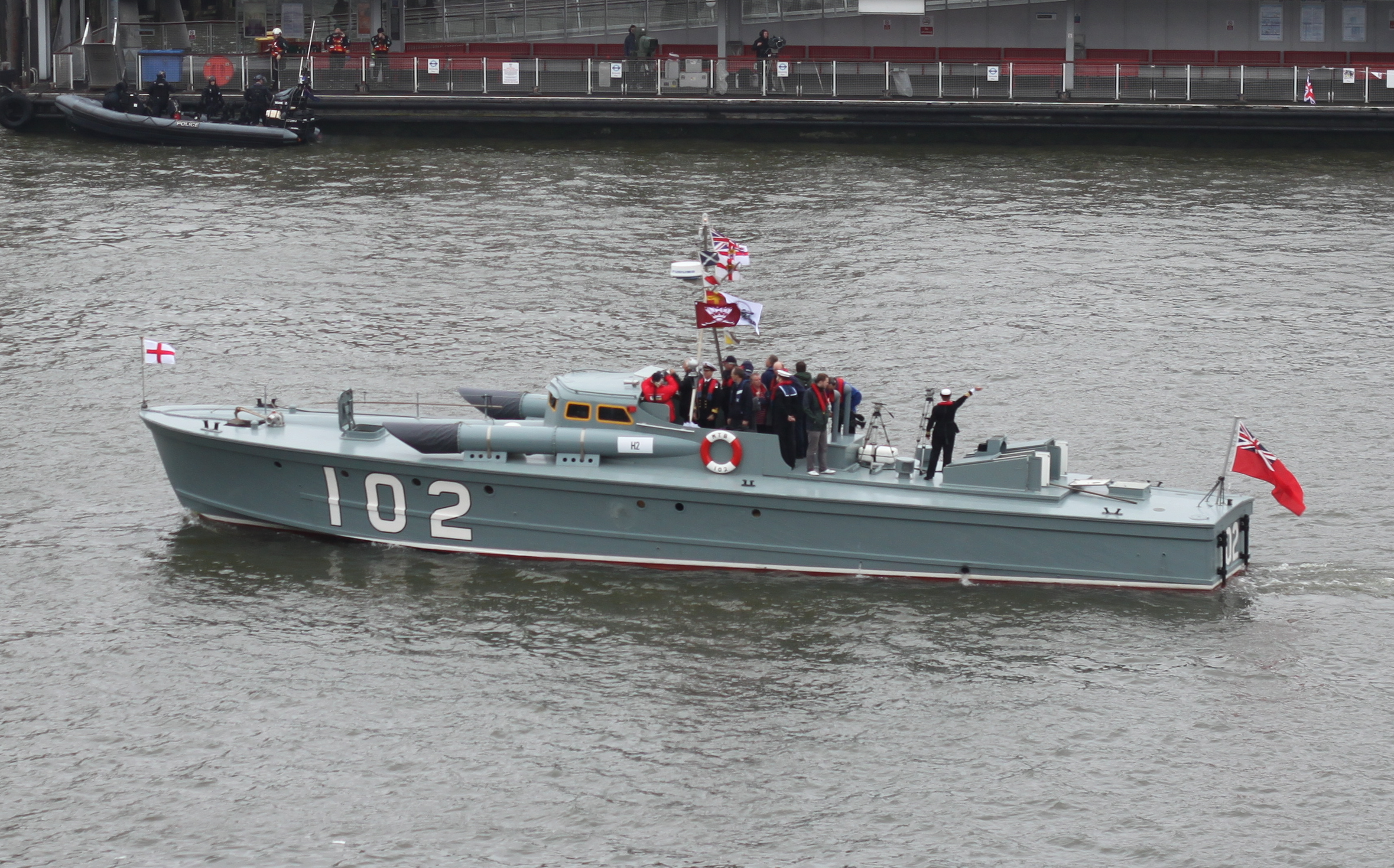 One of the boats in the "Dunkirk Little Ships" section of the Diamond Jubilee flotilla. The description from the official boat listings says: MTB's (Motor Torpedo Boats) were developed to be able to mount a quick response to threats from any sea-going vessel, either warship or submarine. MTB 102 was completed and launched in May 1937 and ran trials on The Solent. She saw active service mainly in the English Channel. During 'Operation Dynamo', the evacuation of the British Expeditionary Force, she crossed the Channel no less than seven times. In 1944 she carried Winston Churchill and General Eisenhower to review the ships assembled on the South Coast for the D-Day landings and so saw both the end of the desperate evacuation of the British Forces from Europe and the start of their determined return.